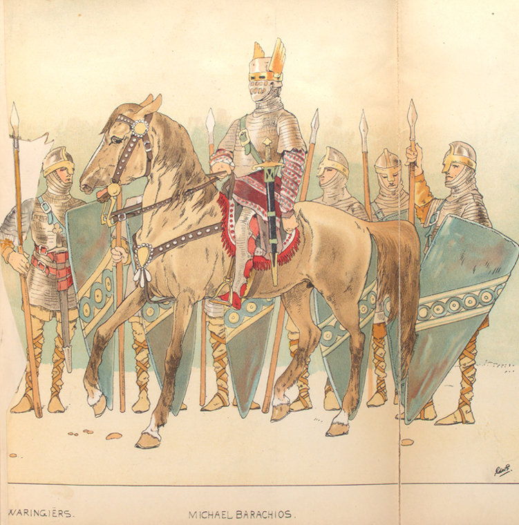 Fanciful ahistorical representation of Byzantine Varangian Guardsmen (dressed more like Norman knights) and Michael Barachios. Drawing from Vinkhuijzen Collection of Military Costume Illustration.